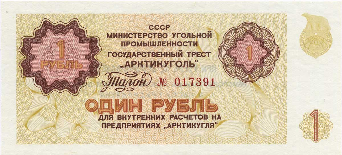 Spitsbergen Travel ruble published in 1976